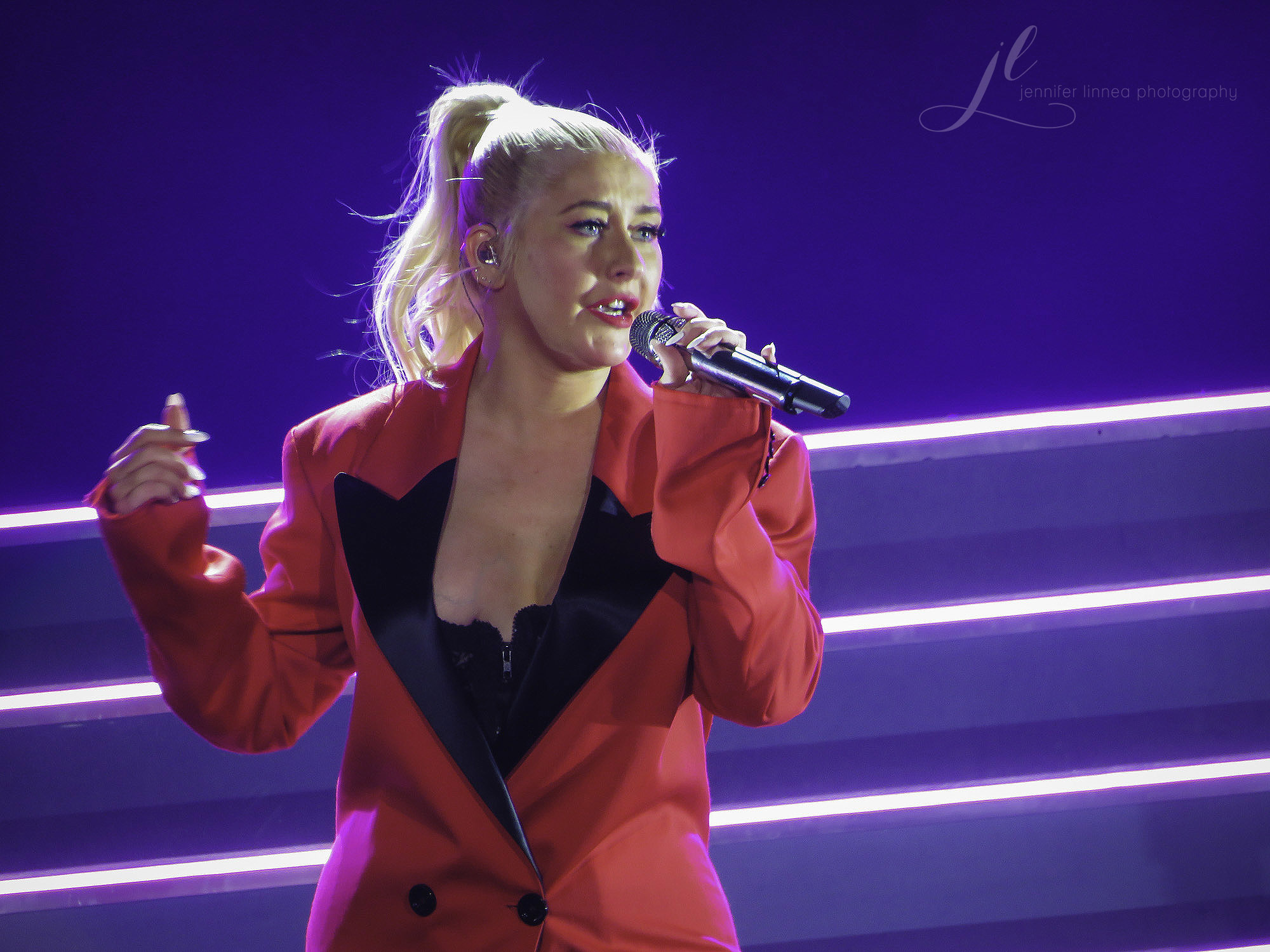 Christina Aguilera performing at the Pepsi Center on October 19, 2018 on her Liberation Tour.